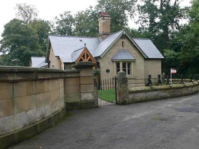 Lodge, Trevalyn Hall